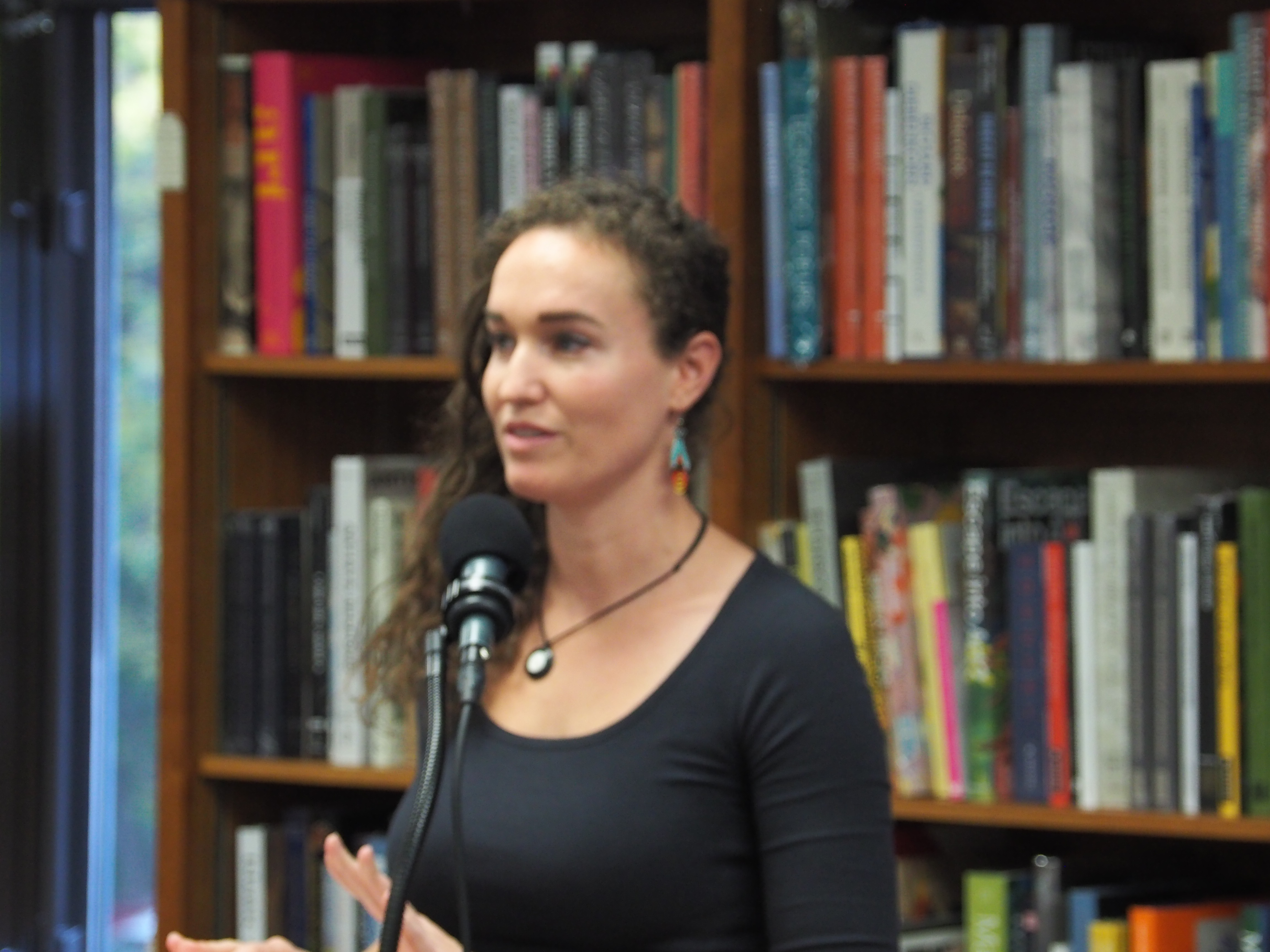 Megan Phelps-Roper